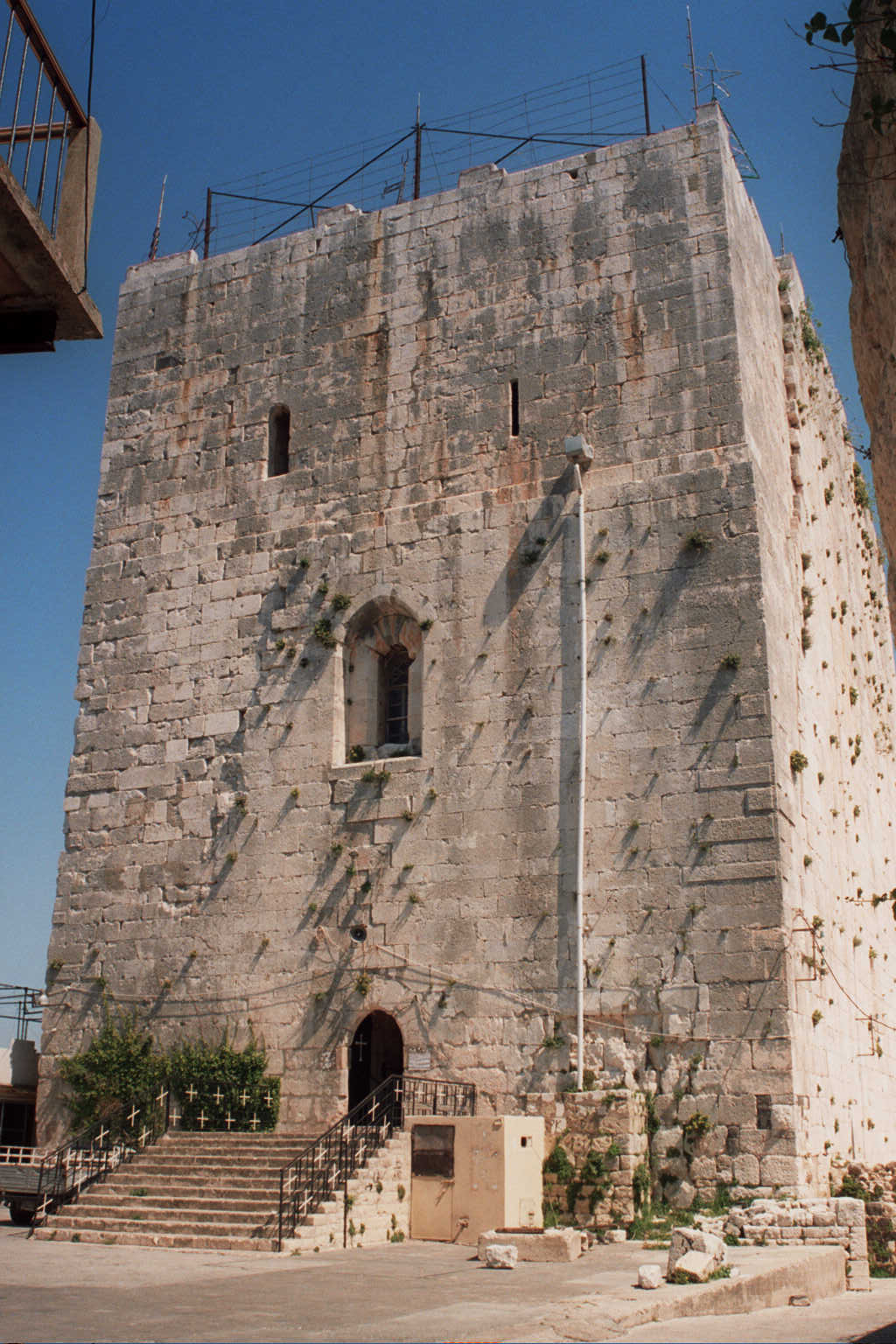 Chastel Blanc, also known as Safita Tower, Syria